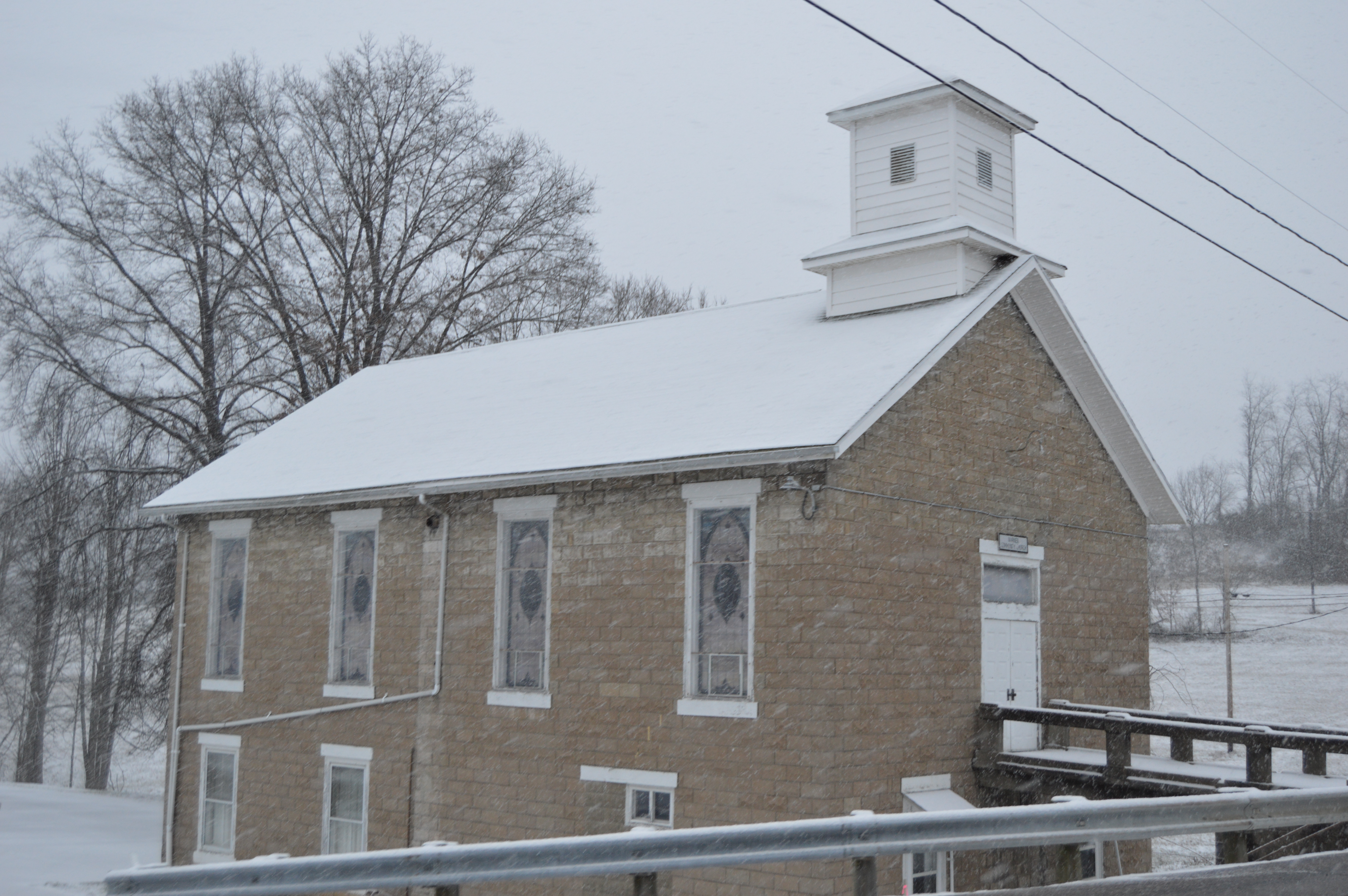 Front and western side of the Warner Community Church, located on State Route 821 in Warner, Ohio, United States.